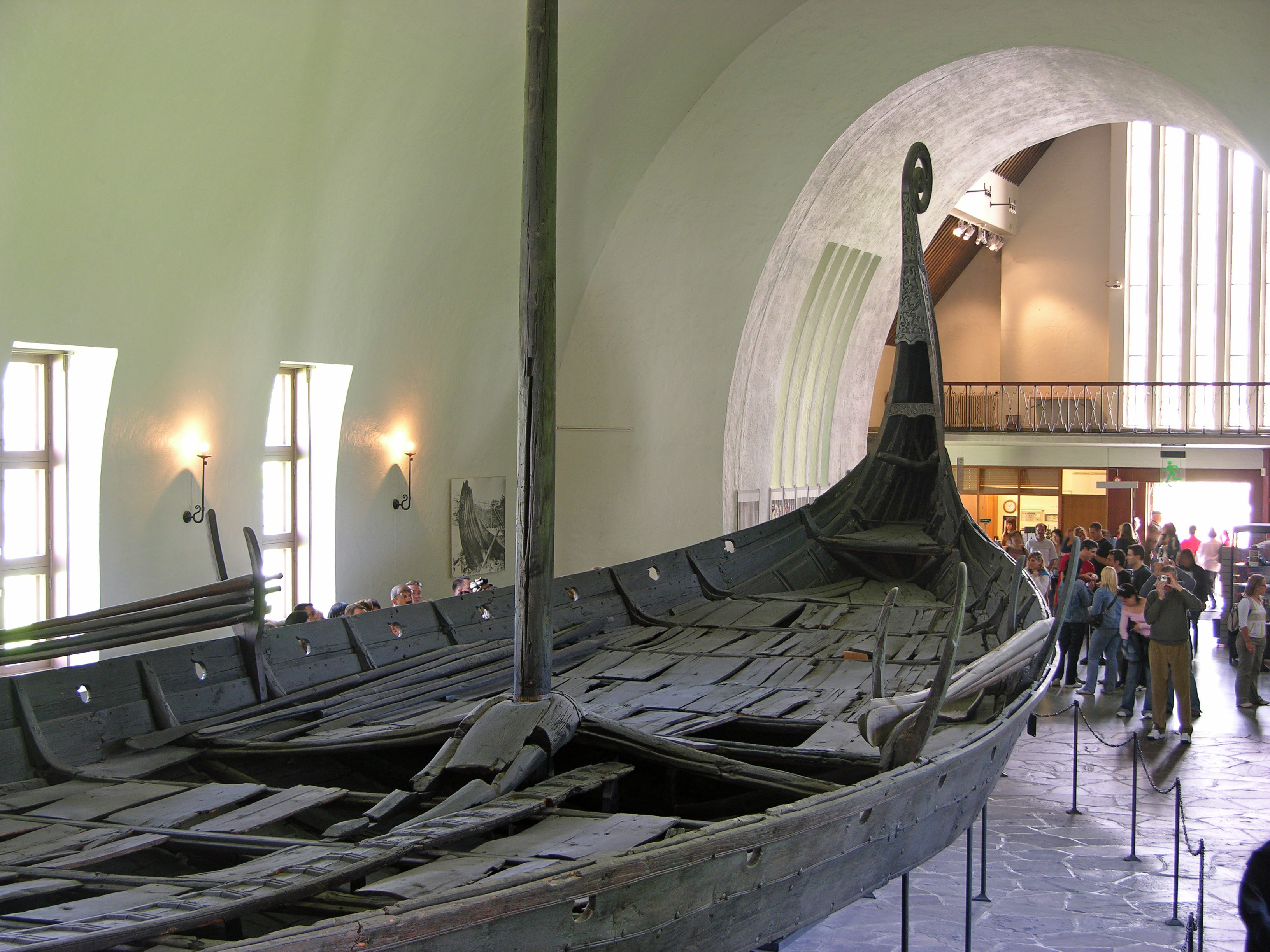 Viking longboat in Museum in Oslo, Norway.